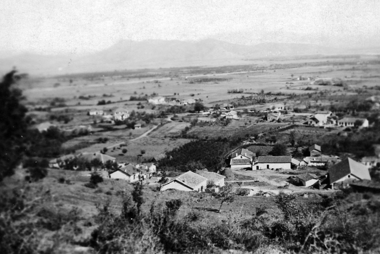 Mrzenci, 1931 This media file is produced by Wikipedian in Residence in Category:Wikipedian in Residence at DARM in 2016.